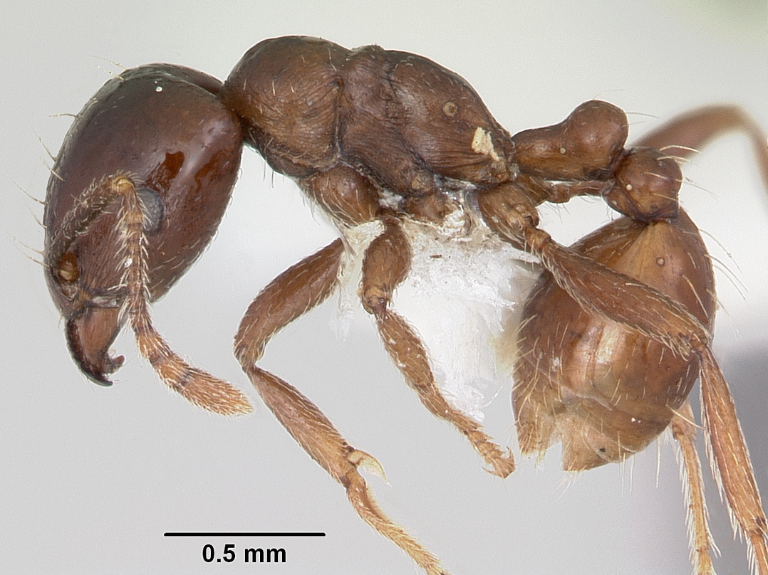 Profile view of ant Rhoptromyrmex globulinodis specimen casent0104916.